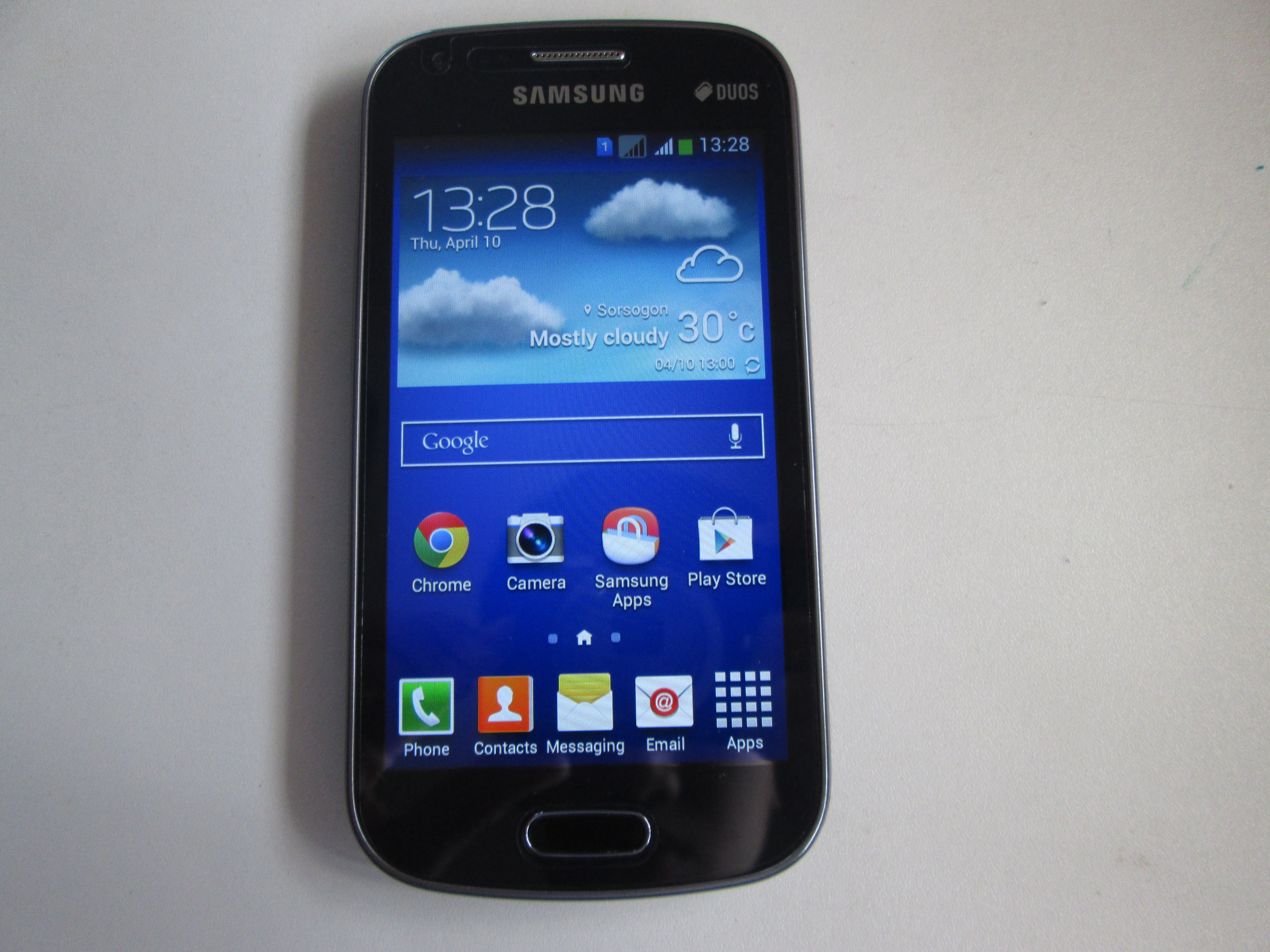 A picture of my Samsung Galaxy S Duos 2, taken at April 10, 2014